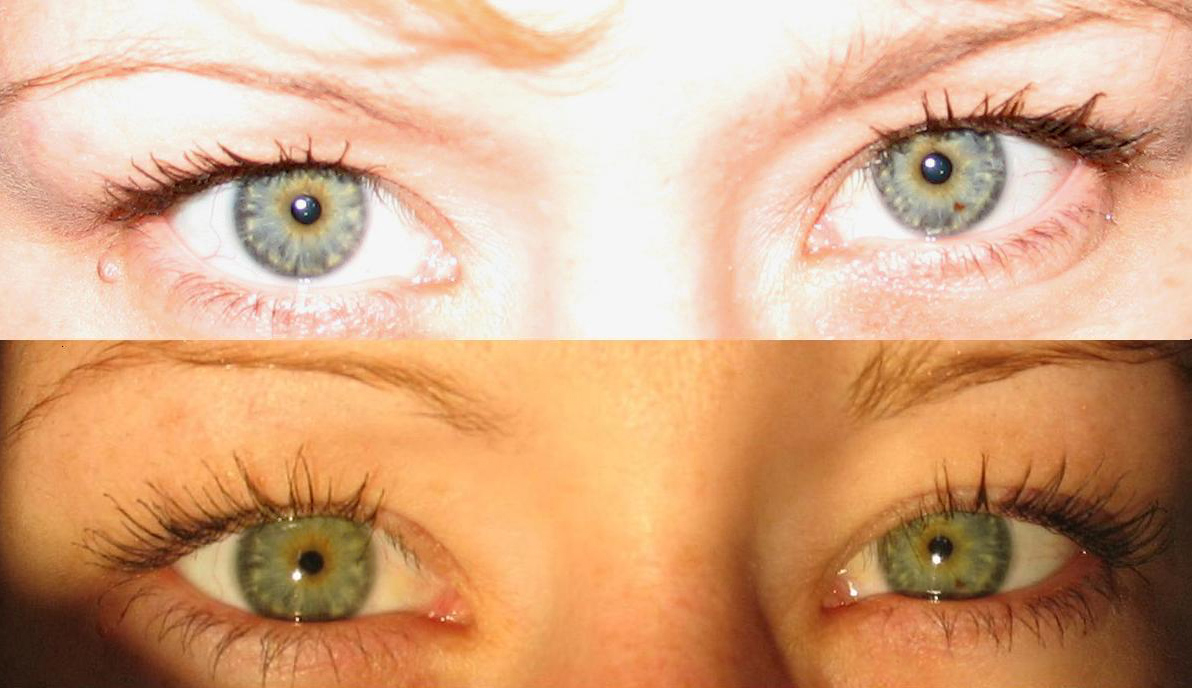 This is an example of Blue and Green eyes. These are the same eyes, however the color appears to be quite different depending on the surroundings. In the top picture, the eyes appear more blue or grey, but in the bottom picture, the same eyes appear more green. Notice the yellow- or copper- rings around the pupils.